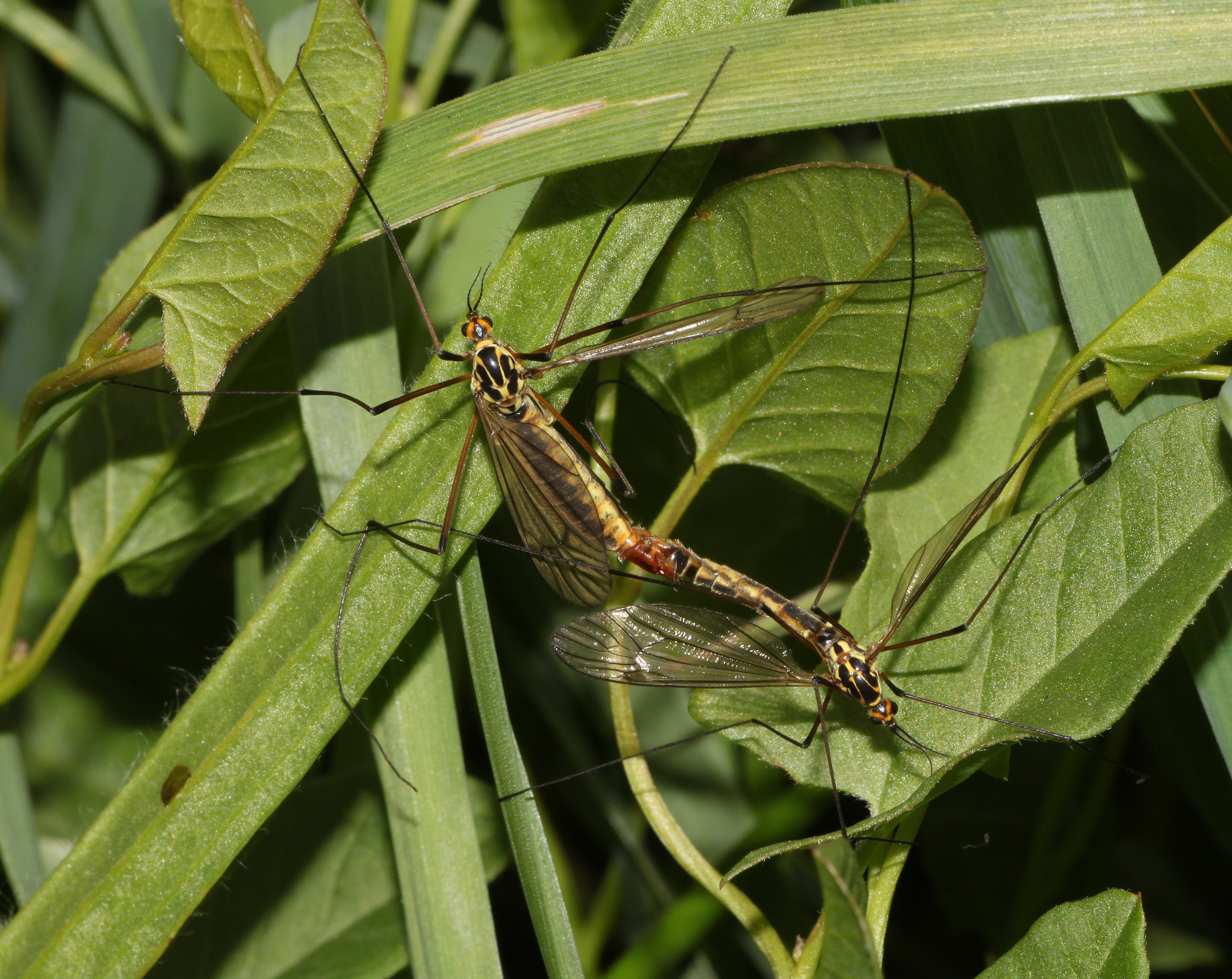 Spotted Crane Fly (couple), Nephrotoma appendiculata, Family: Tipulidae, Location: Germany, Beiningen